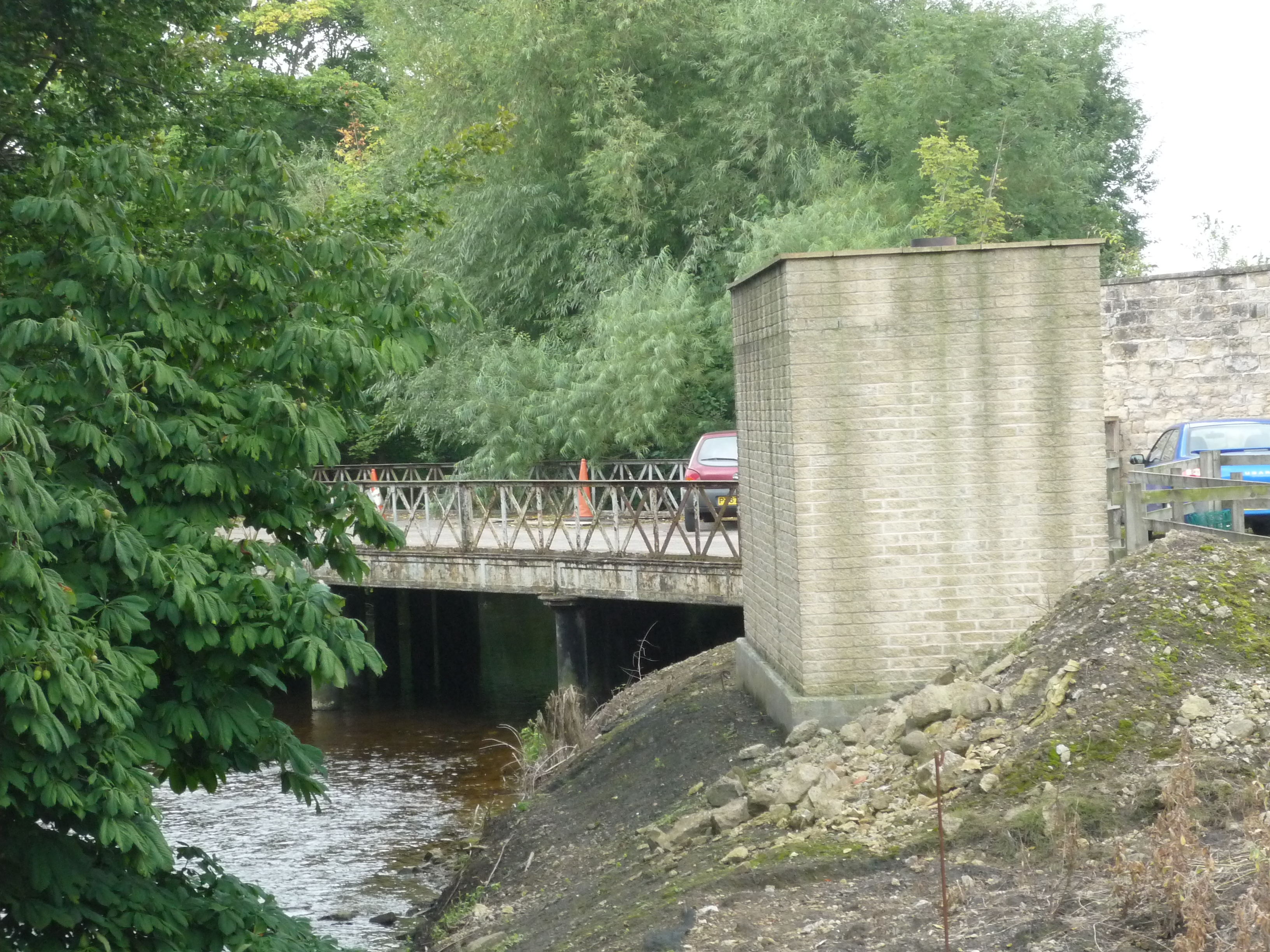 This bridge carried the double track Malton to Pickering railway line over Pickering Beck, 180m south of Pickering station. It can be found on the south side of the A170 road - the opposite side to the car park. Pickering station remains open but is a terminus and only handles trains on the preserved North York Moors Railway.